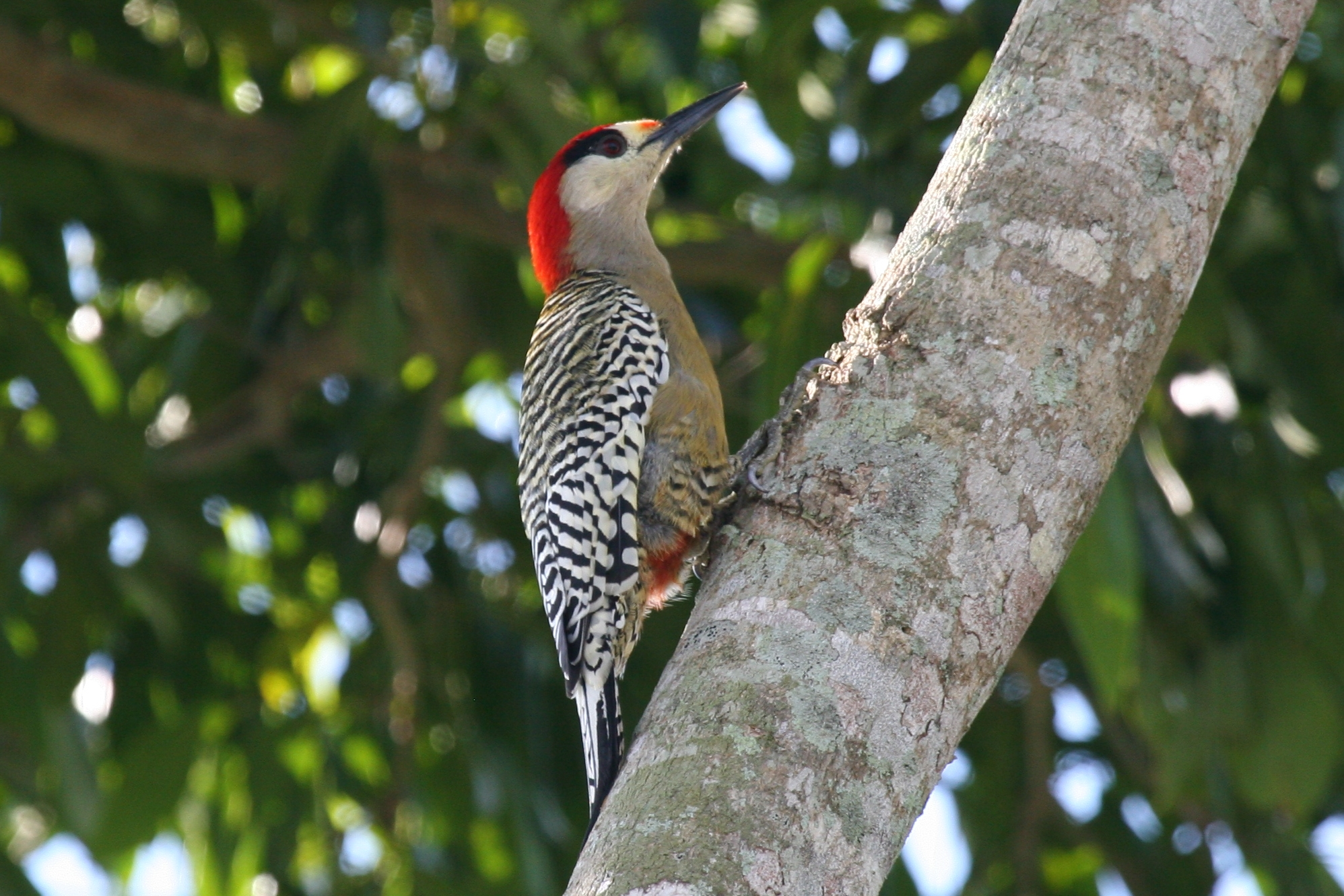 West Indian Woodpecker (Melanerpes superciliaris) in Cuba